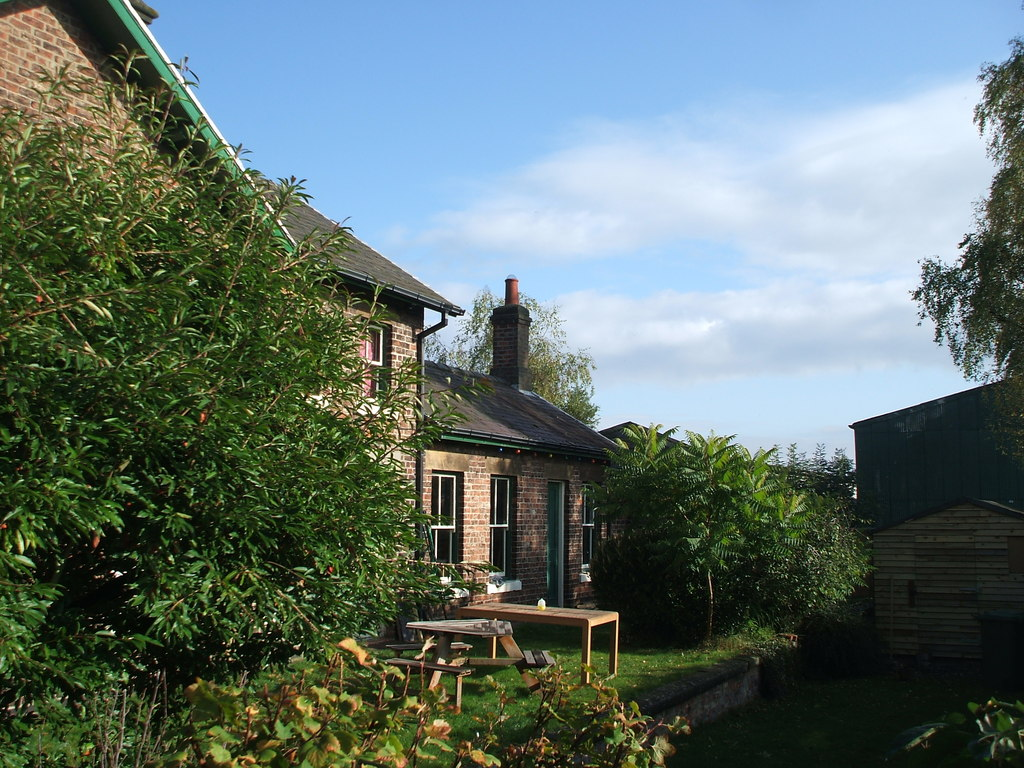 Potto railway station (site)Opened in 1857 y the North Eastern Railway, this station on the former line from Picton to Battersby closed in 1954 to passengers, and completely in 1958. View east from the former level crossing.